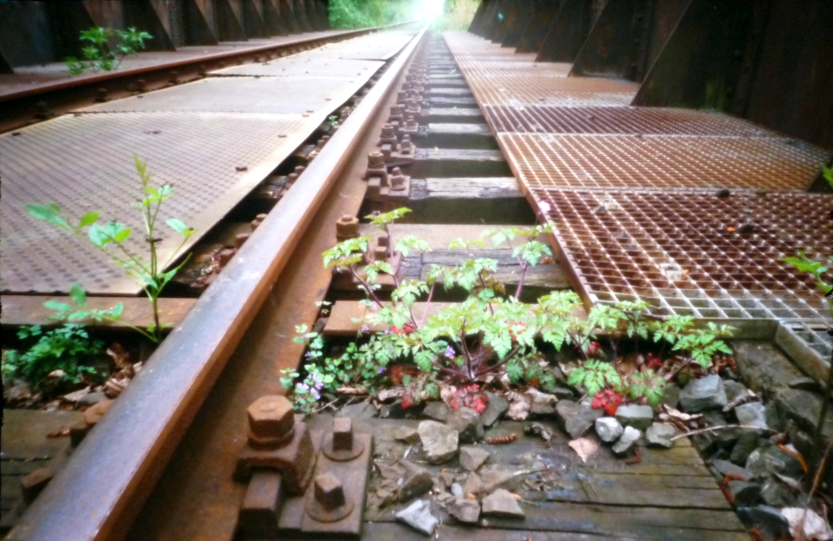 Simulation of a pinhole camera photo, exposure time 3 minutes. Disused railway, Rheda-Wiedenbrück.